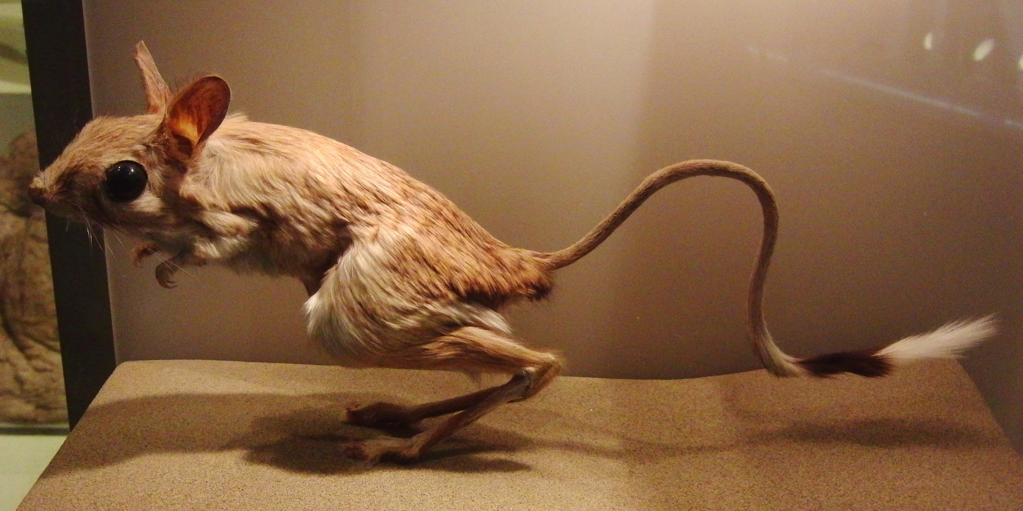 Stuffed specimen of Greater Egyptian jerboa (Jaculus orientalis). Exhibit in the National Museum of Nature and Science, Tokyo, Japan.